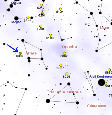 NGC 6397